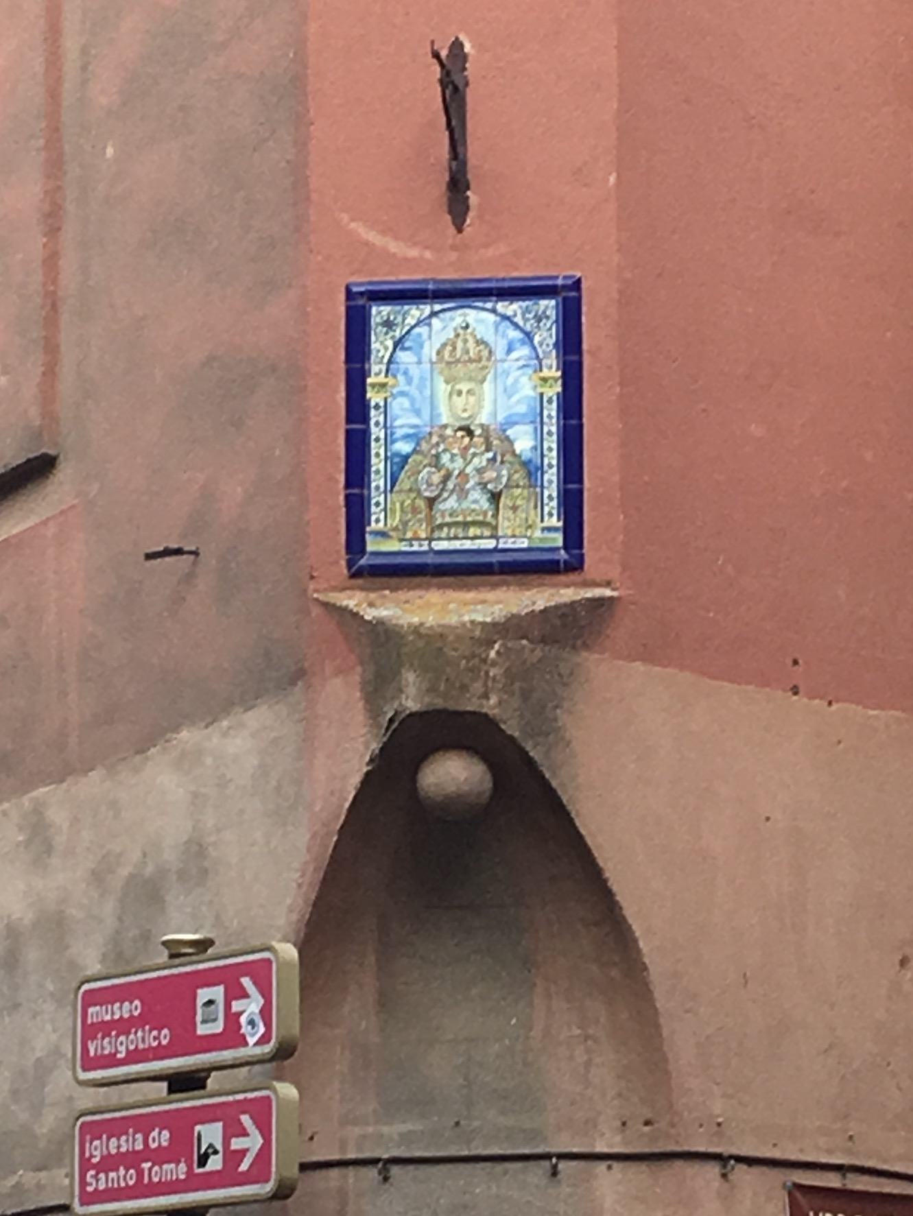 A corner with the ancient bolas that marks the building has a well or water reserve.